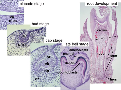 Note that all early development is directed at creating the crown and only then root formation is initiated. Ameloblasts differentiate from the epithelium and odontoblasts from the mesenchyme and they deposit the matrices of enamel and dentin, respectively. Ameloblasts and enamel are missing on the root which is covered by the softer dentin and cementum. Ep, epithelium; mes, mesenchyme; sr, stellate reticulum; dm; dental mesenchyme; dp, dental papilla; df, dental follicle; ek, enamel knot; erm, epithelial cell rests of malassez; hers, hertwig's epithelial root sheath.